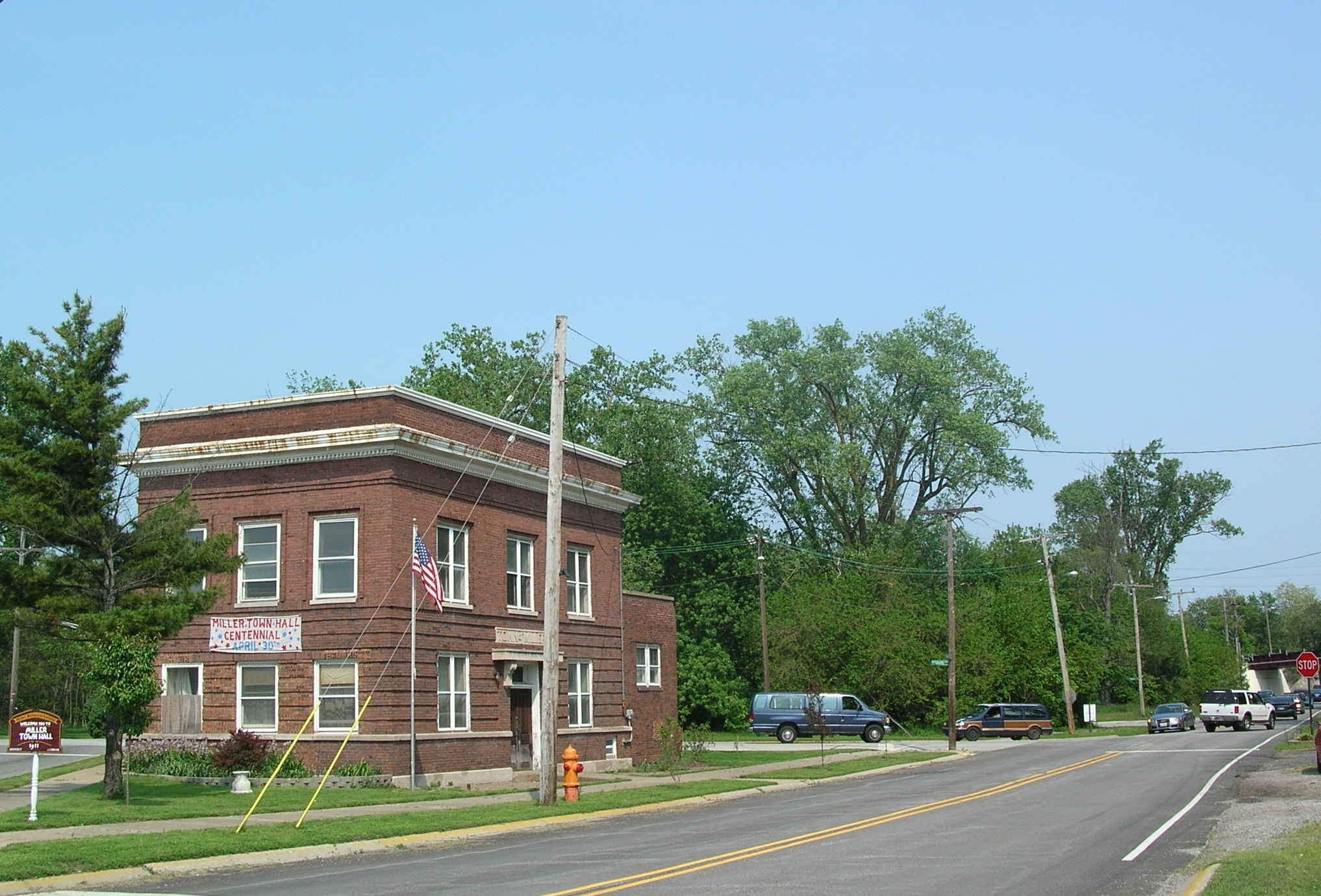 Miller Town Hall, built 1911 and currently vacant, in the Miller Beach neighborhood of eastern Gary, Indiana.